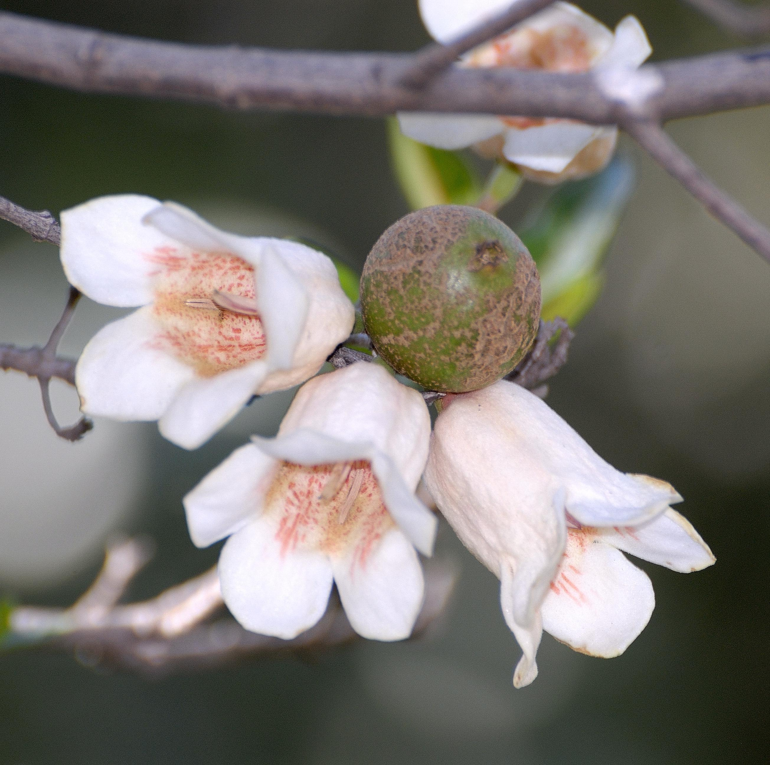 Flowers and fruit of the September Bells (or Bell Gardenia), in Jan Celliers Park, Pretoria